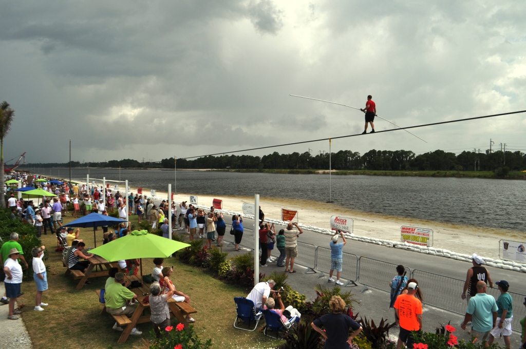 Nik Wallenda Trains for June 23, 2013 Grand Canyon Walk at Nathan Benderson Park, Sarasota, Fla., June 16, 2013